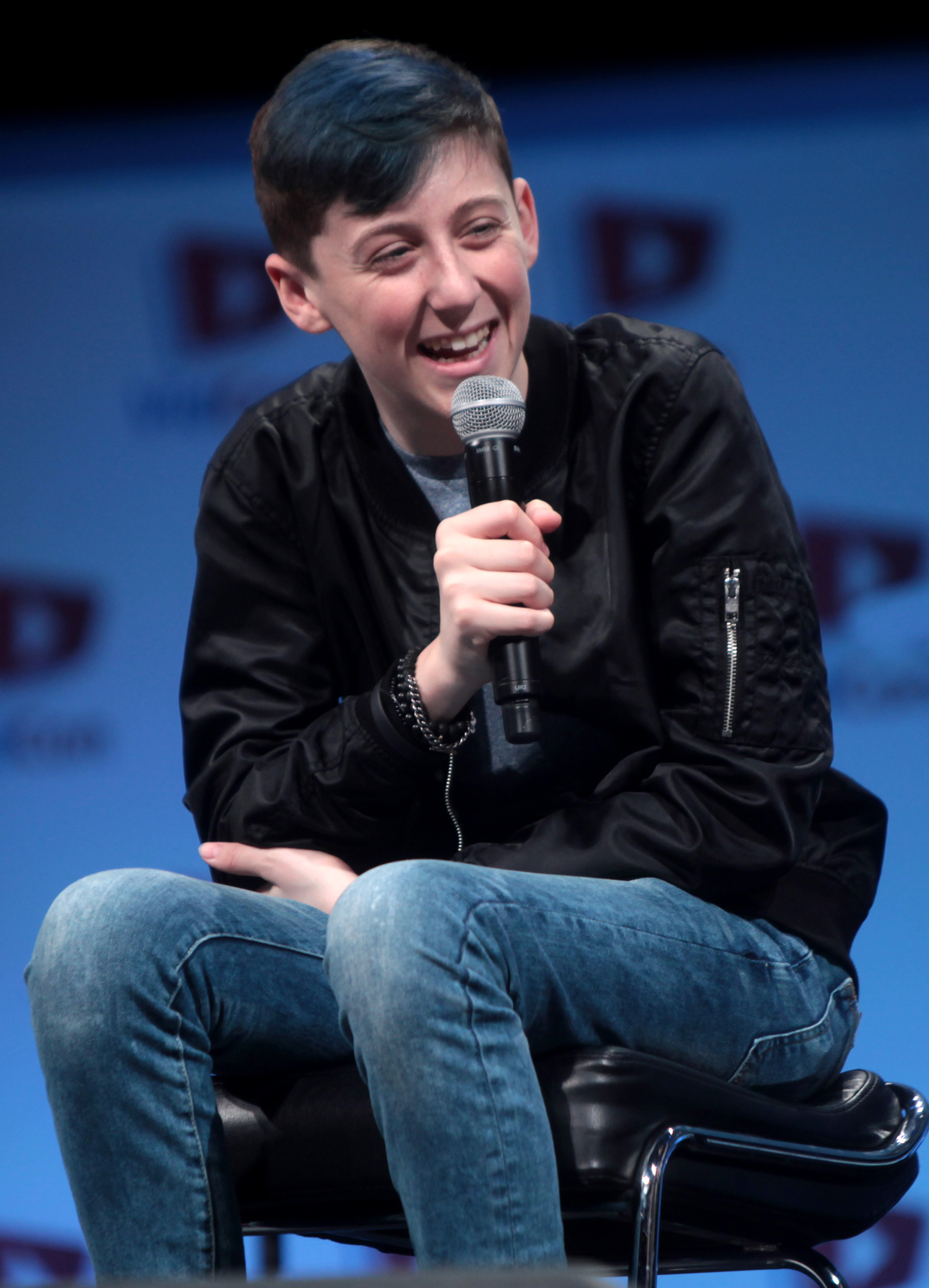 Trevor Moran speaking at the 2014 VidCon on June 28, 2014.